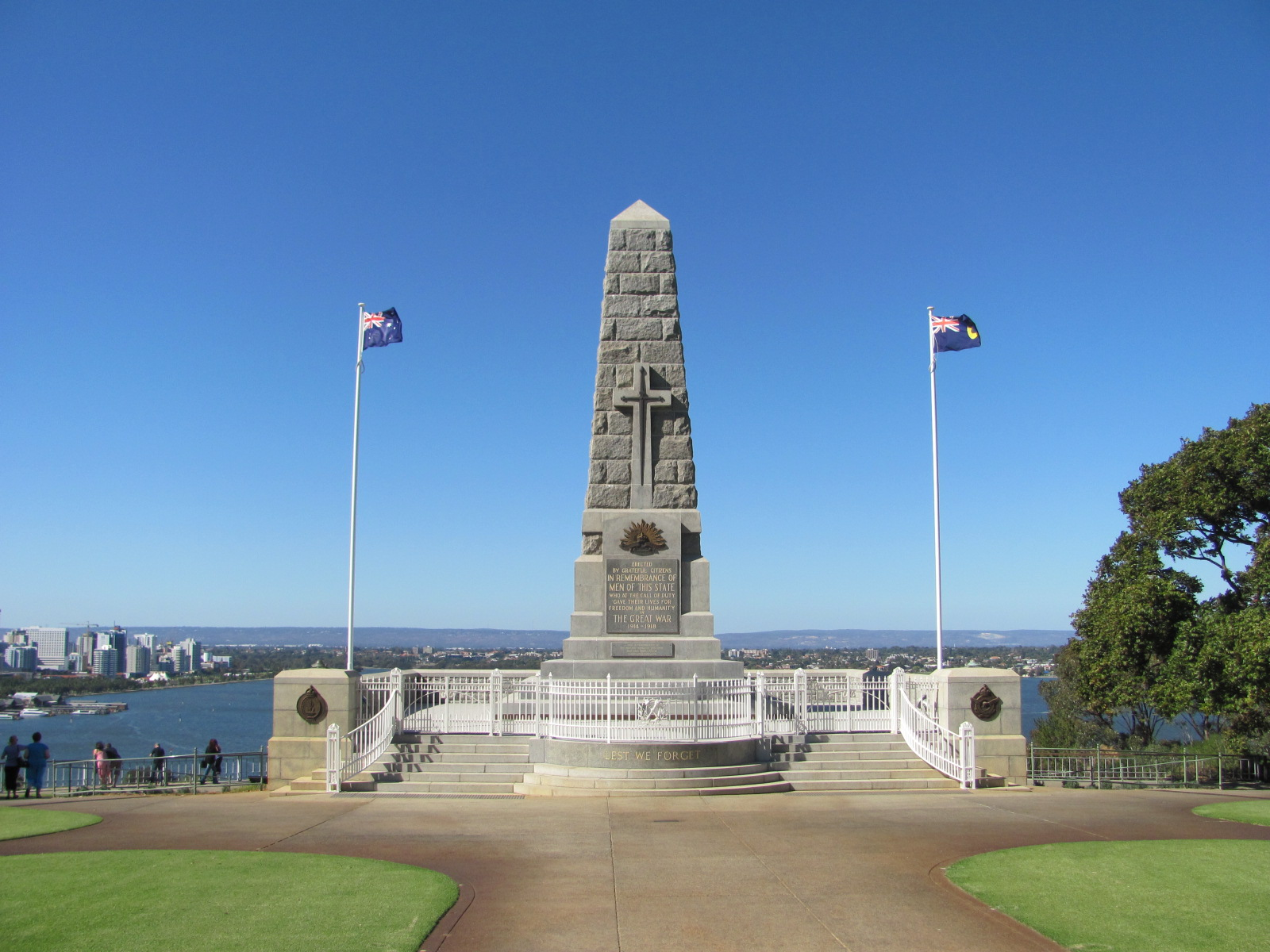 Obelisk at the Kings Park War Memorial, Perth, Australia.